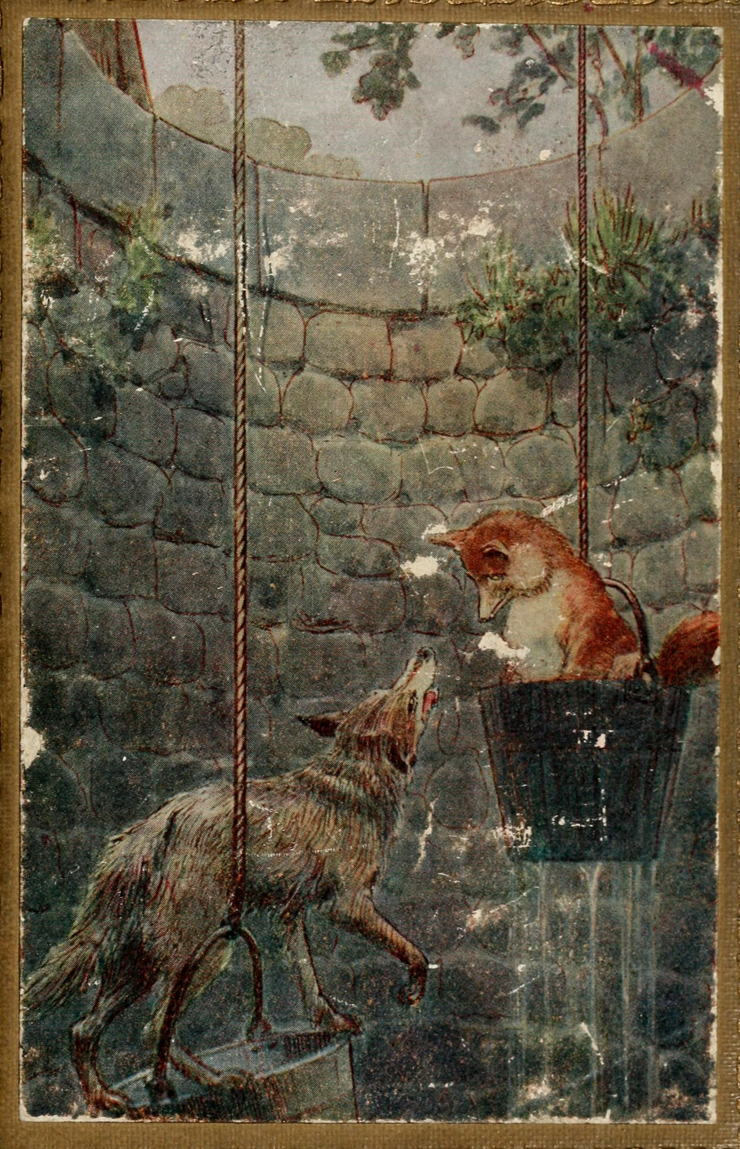 Cover inset from binding in book of fables. Art work by an undetermined author.